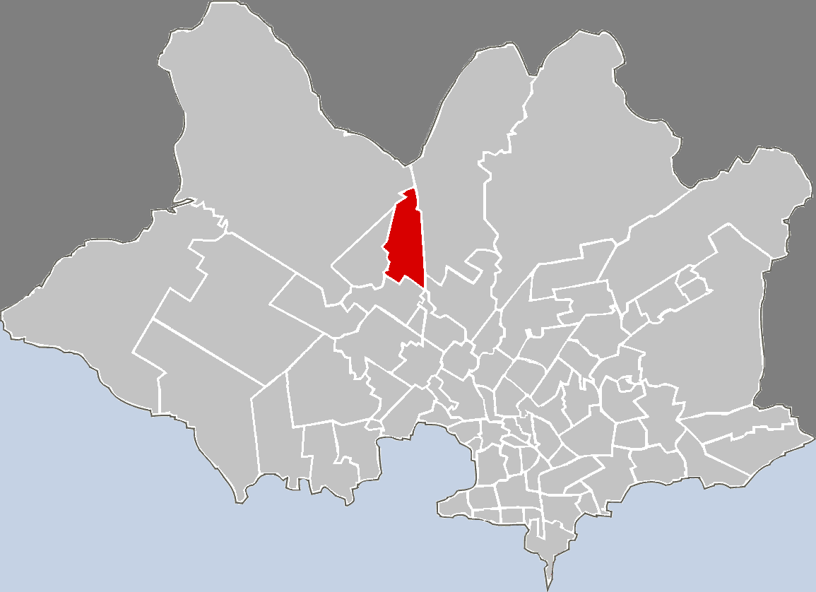 Map highlighting the given barrio in Montevideo.